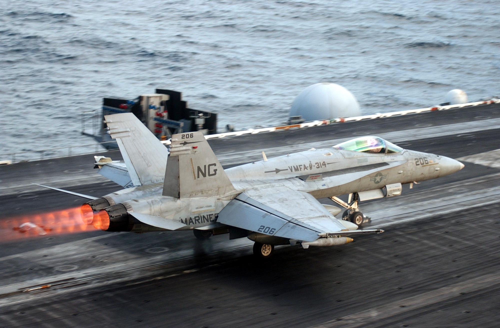 At sea aboard USS John C. Stennis (CVN 74) - An F/A-18 "Hornet" assigned to the "Black Knights" of Marine Fighter Attack Squadron Three One Four (VMFA-314) is launched from one of four steam catapult systems on the ship’s flight deck.